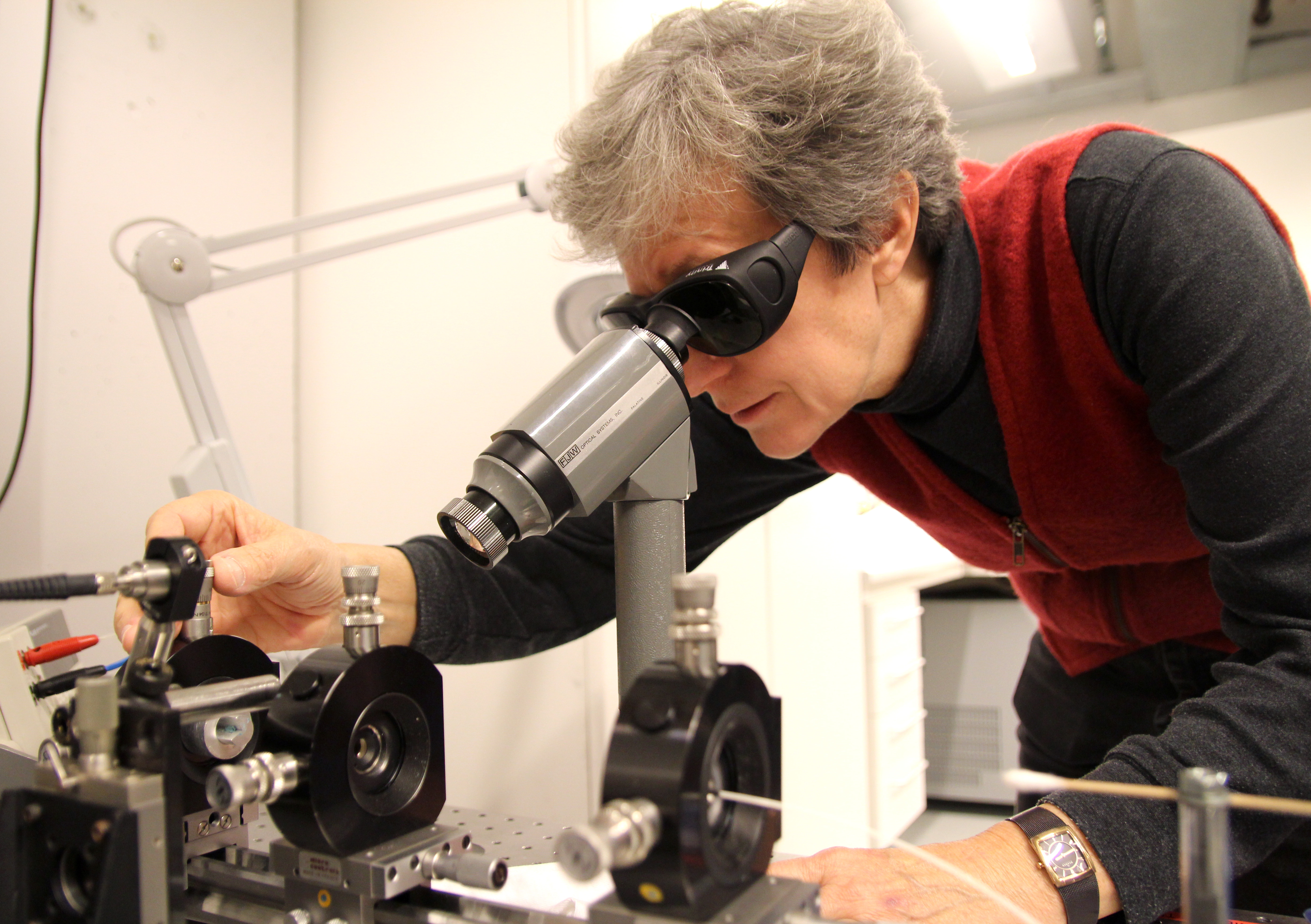 Photo: Per Henning/NTNU Ursula Jane Gibson is a Professor of Physics at the Norwegian University of Science and Technology who specialises in novel core optical fibres. Gibson was elected in 2017 to become President of The Optical Society